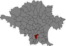 Location of Palau de Santa Eulàlia in Alt Empordà